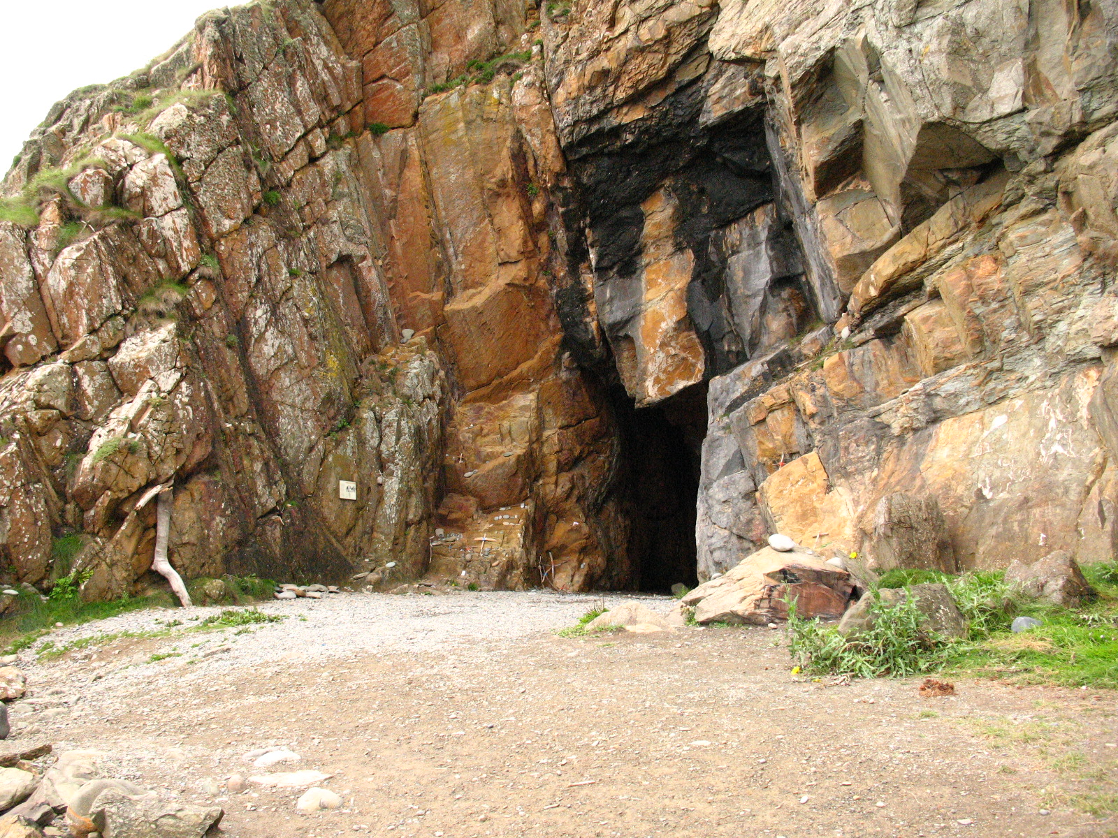 This is St. Ninians Cave in Dumfries and Galloway, Scotland.